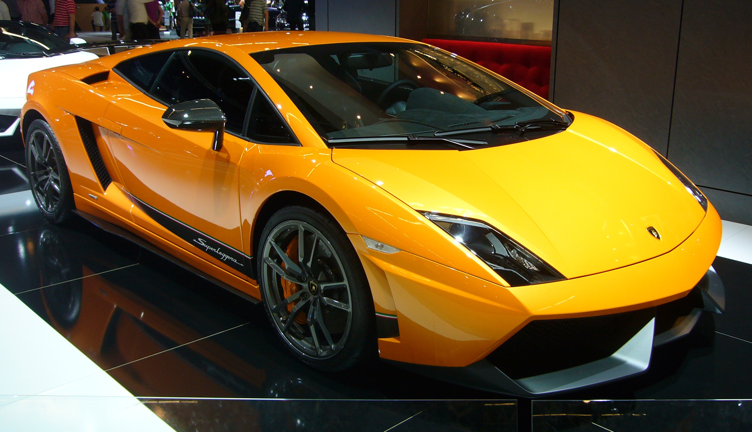 Lamborghini Gallardo LP570-4 Superleggera at AutoRAI Amsterdam 2011